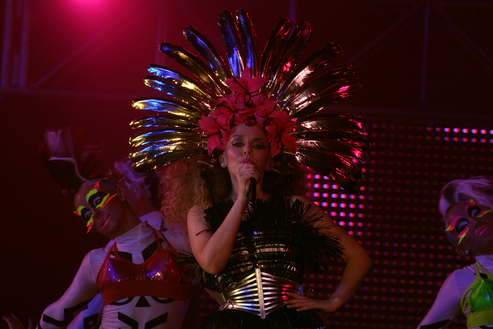 Kylie Minogue appearing and performing at the 2012 Sydney Gay and Lesbian Mardi Gras and After Party.